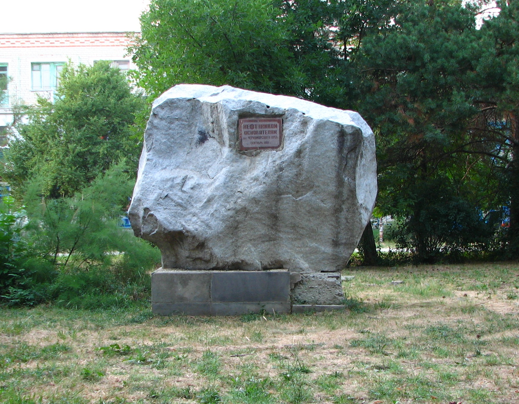 Памятник нефтяникам-основателям поселка